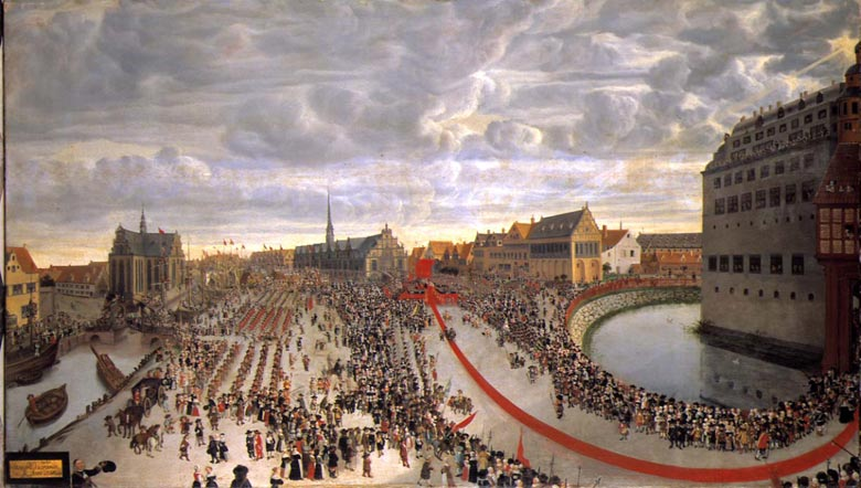 The celebrations in front of Copenhagen Castle in Copenhagen, Denmark at Frederik III of Denmark's ascend to the Danish throne in 1660 as the first Danish absolute King